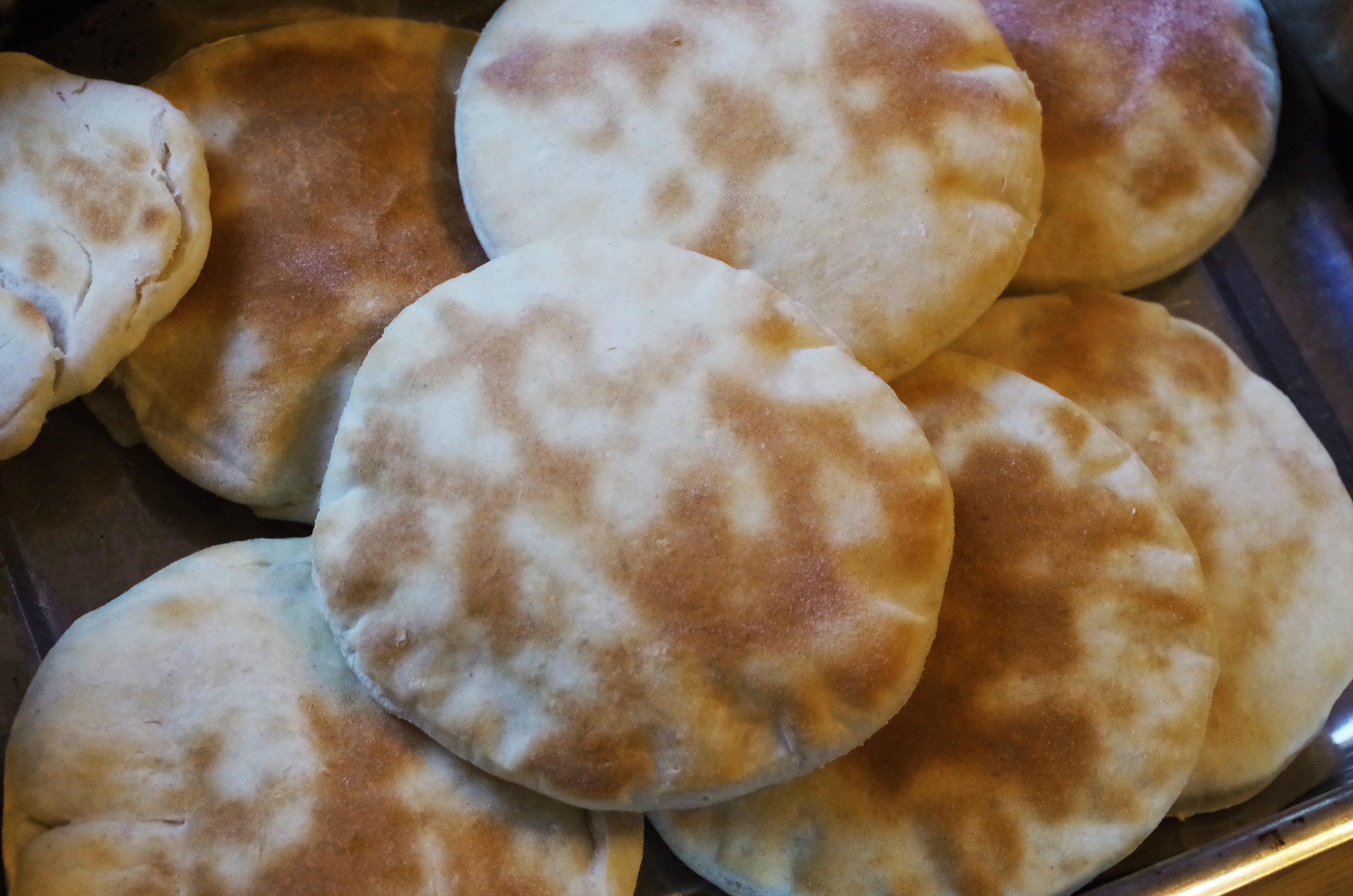 Arabic bread (Pita)